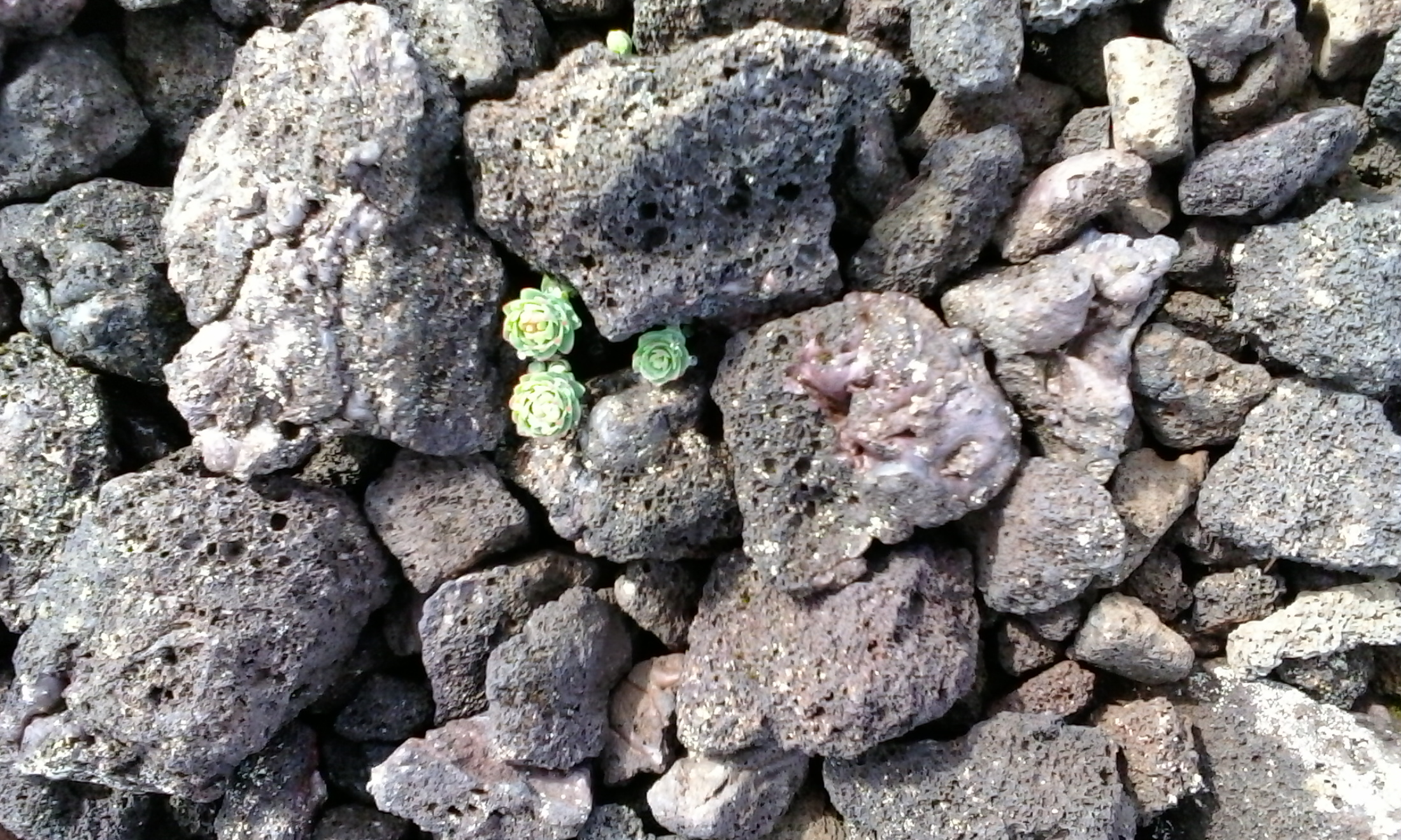 Lava channels around Eldborg, Krýsuvík, Iceland